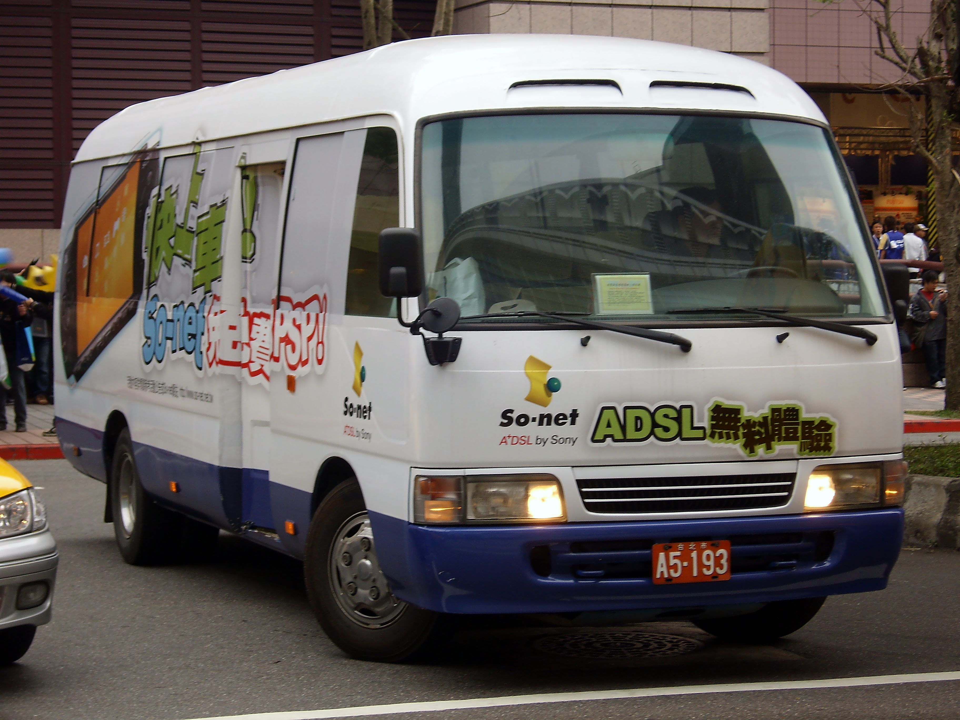 2007 Taipei IT Month: An unofficial bus by So-net.